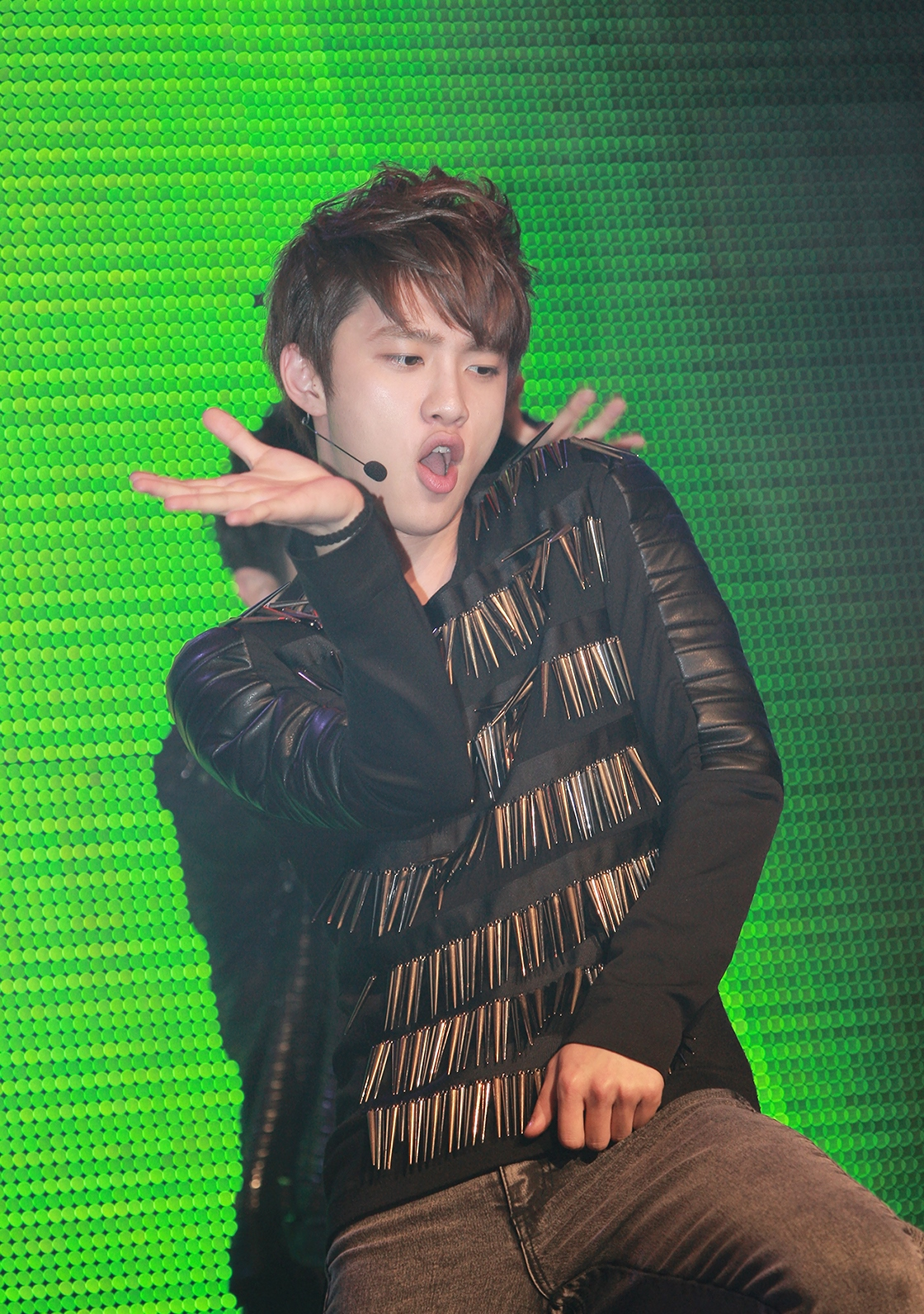 D.O. at the Youth Culture Festival on May 17, 2013.